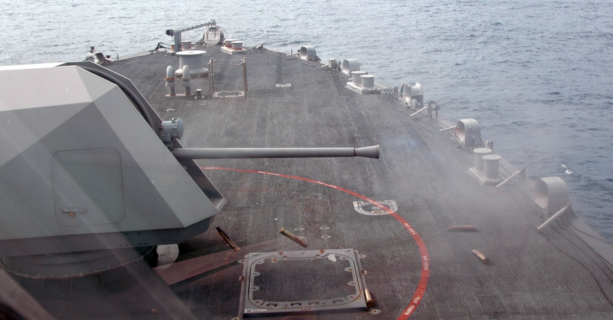 ATLANTIC OCEAN (Nov. 18, 2009) The littoral combat ship USS Freedom (LCS-1) fires its MK-110 57 mm gun during a surface gunnery exercise (GUNEX). Freedom is conducting independent ship training and certification for her upcoming maiden deployment.